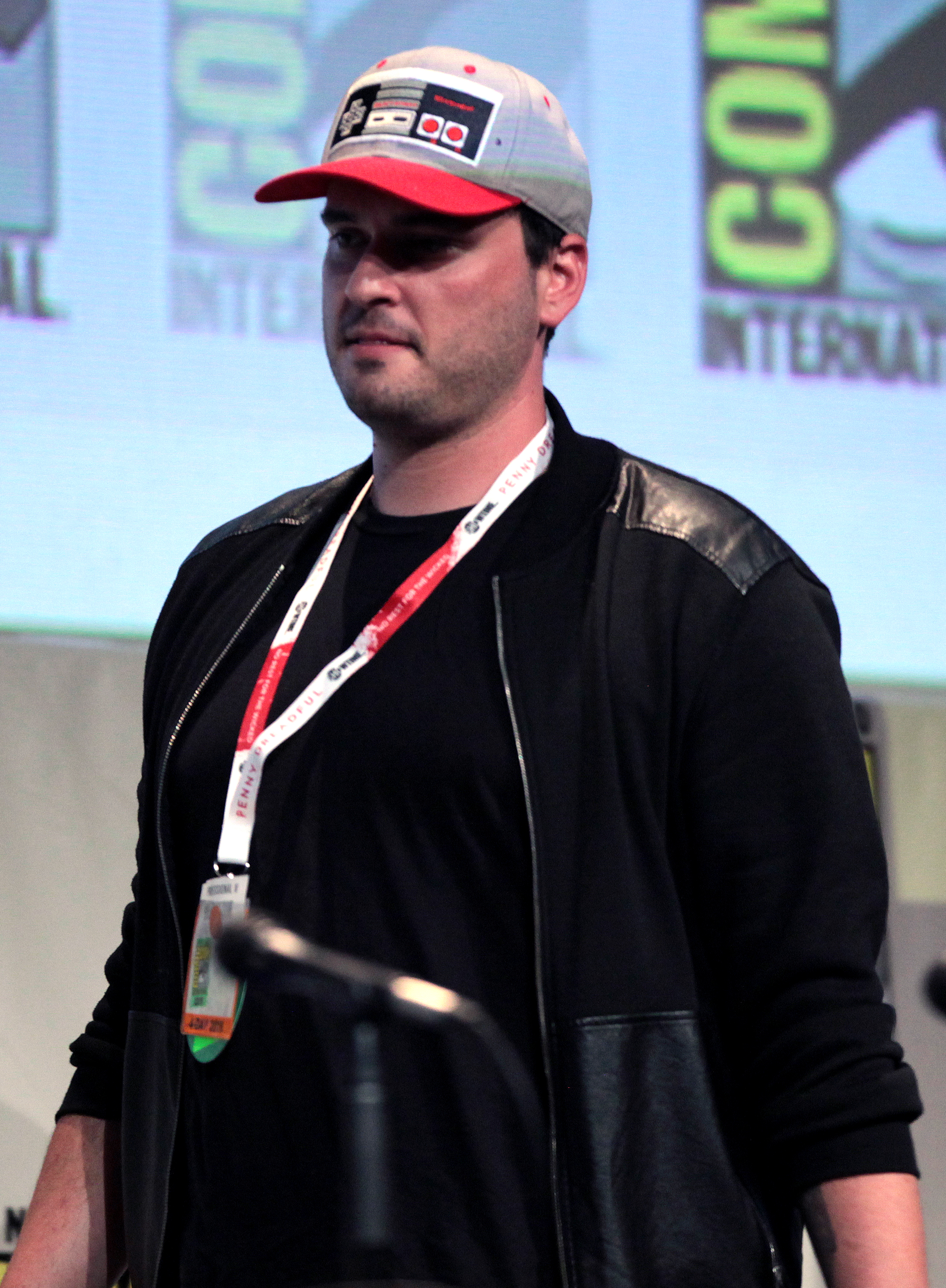 Josh Trank at the 2015 San Diego Comic Con International in San Diego, California.